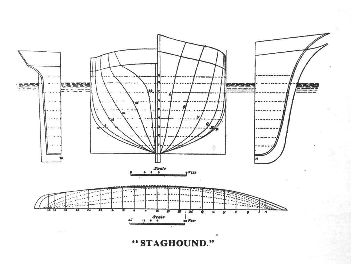 Lines of Flying Cloud, 1851 clipper ship